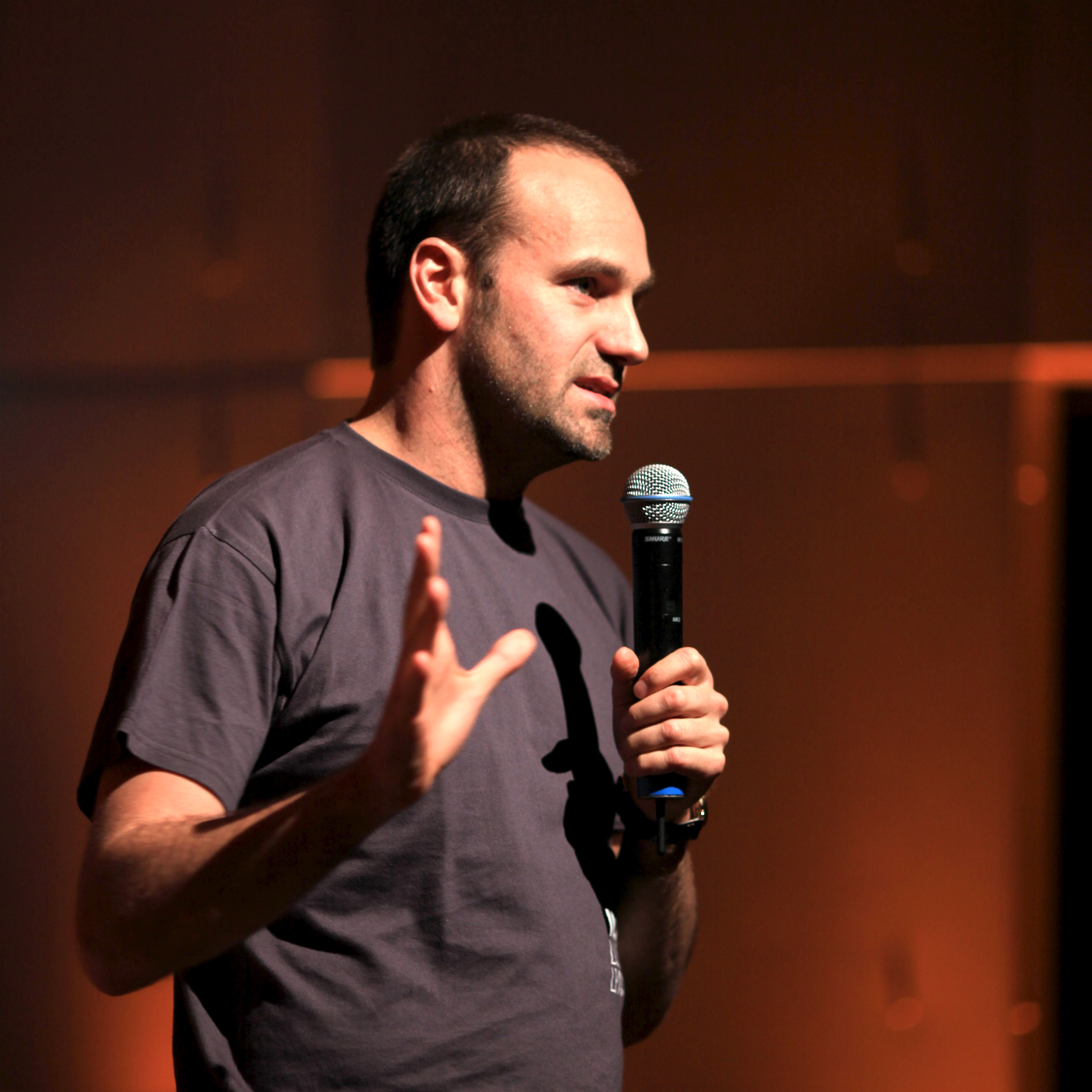 Mark Shuttleworth on stage, while speaking at the Paris Ubuntu Party, Nov. 2009.